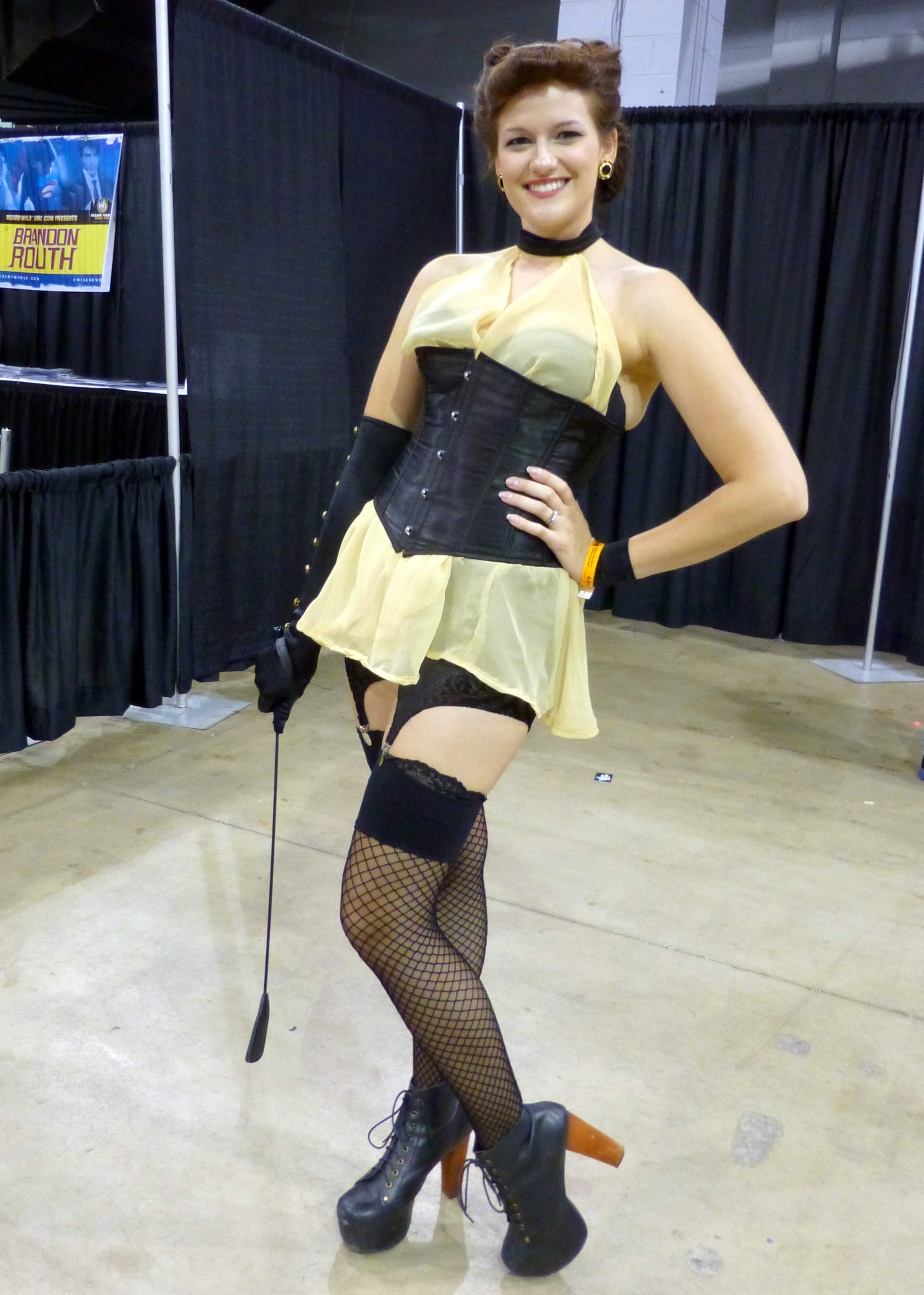 Silk Spectre from Watchmen Cosplay at the 2013 Wizard World Chicago.